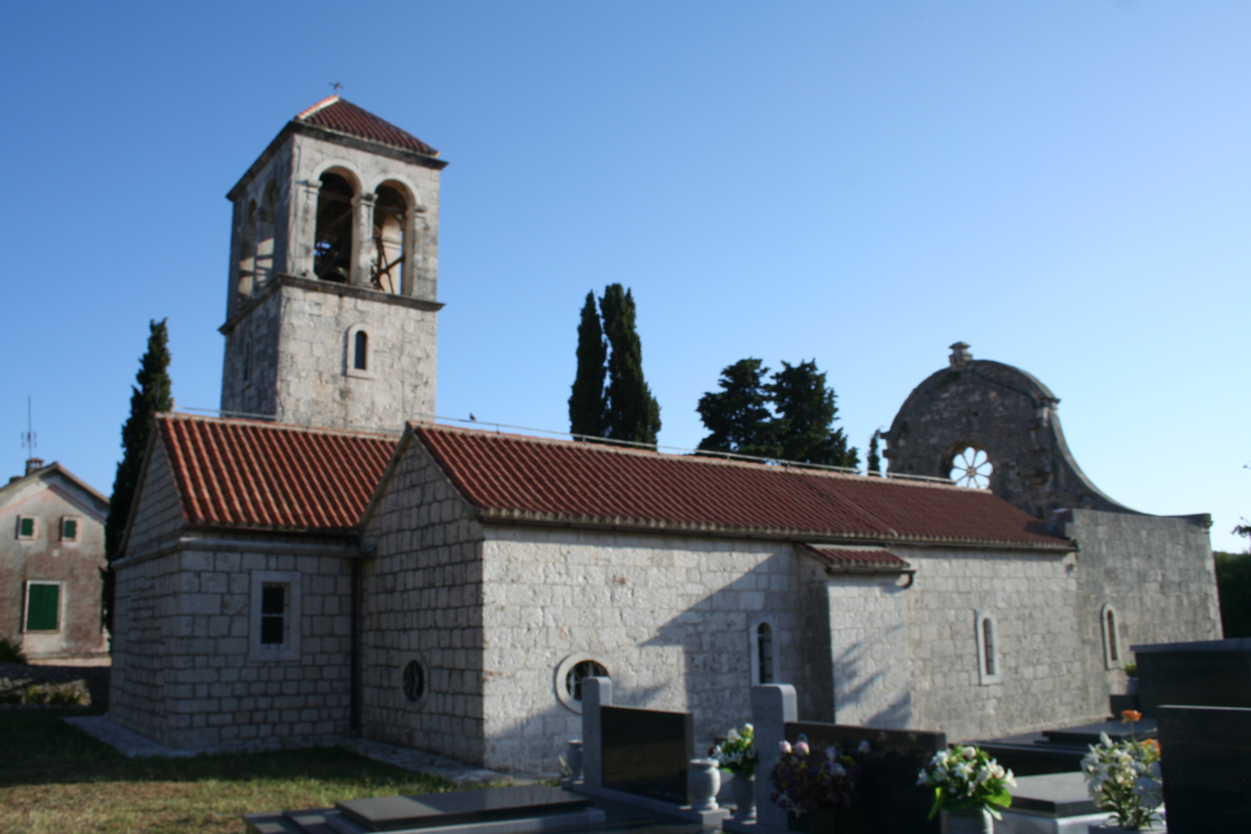 Church St. Juraj, Drvenik.